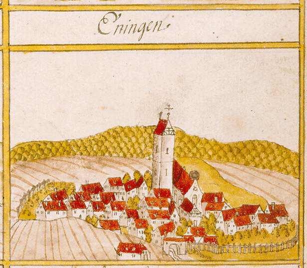 View of Ehningen from the forest register books created by Andreas Kieser